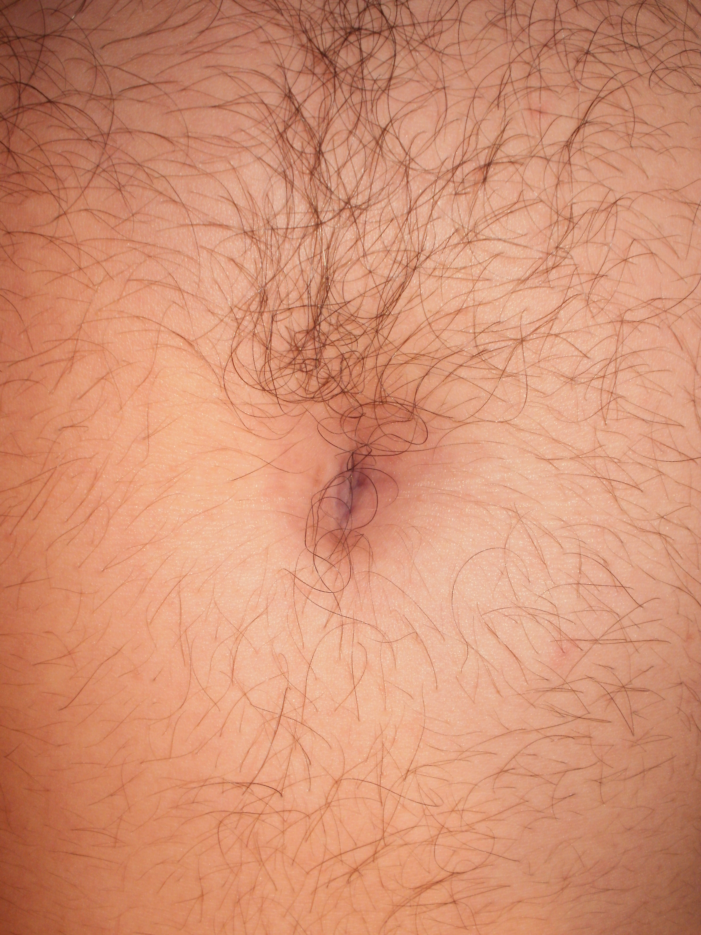 Navel